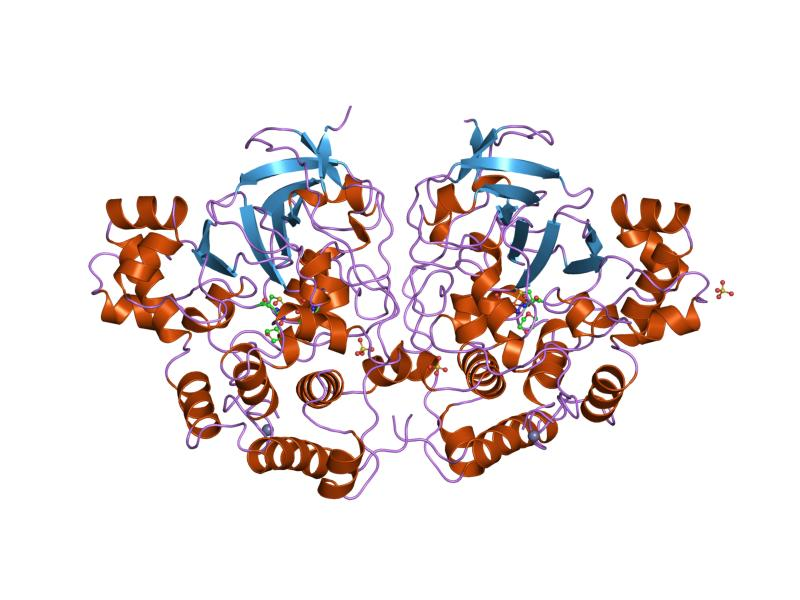 Cartoon representation of the molecular structure of protein registered with 2ahj code.